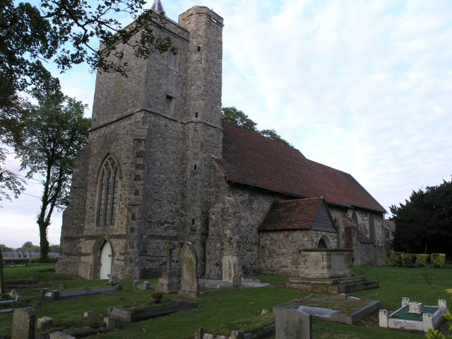 Parish church of St James the Great, Cooling, Kent, seen from the southwest